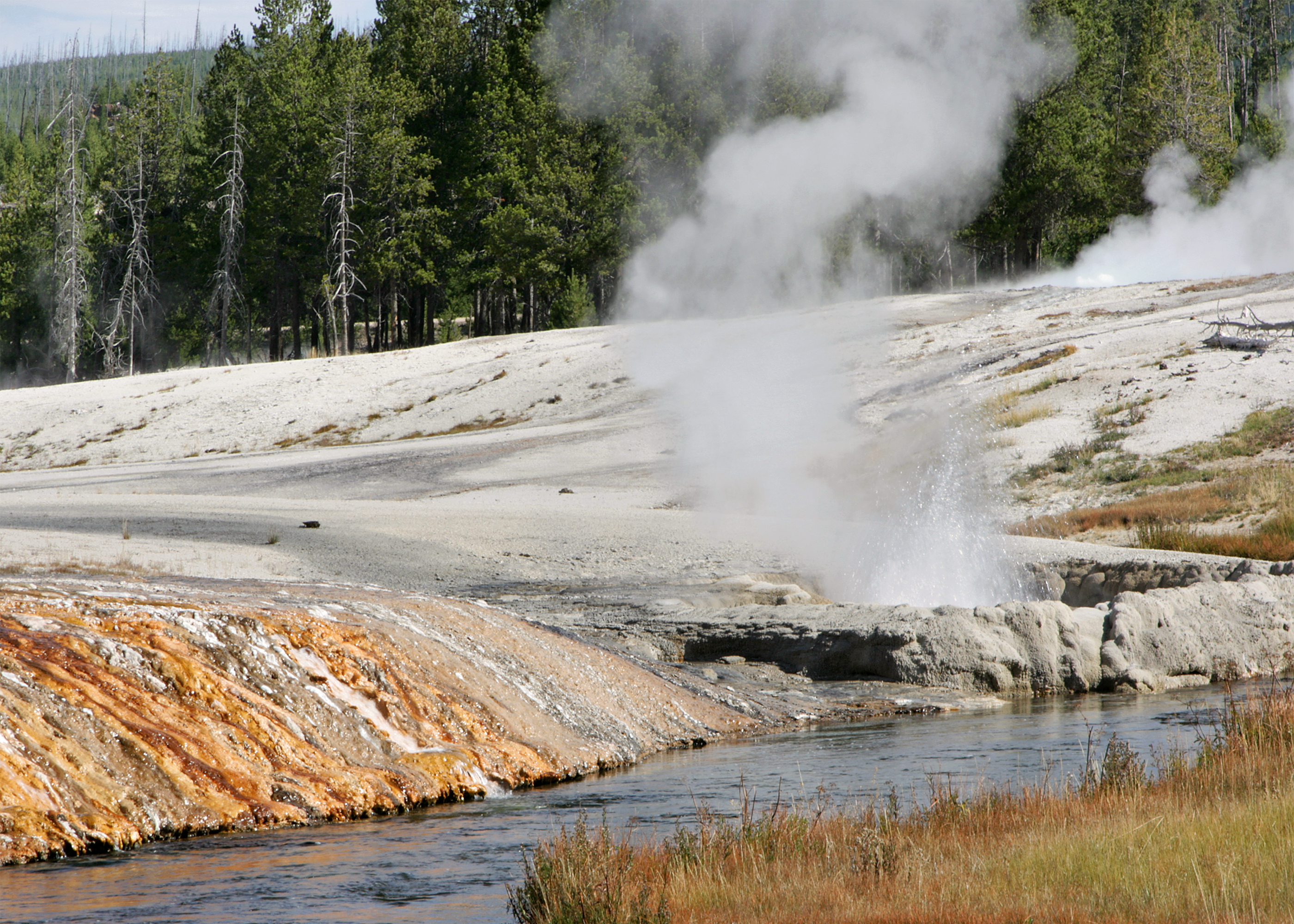 Landschaft im Yellowstonenationalpark in Wyoming / USA Most likely on the Firehole River near Midway Geyser Basin